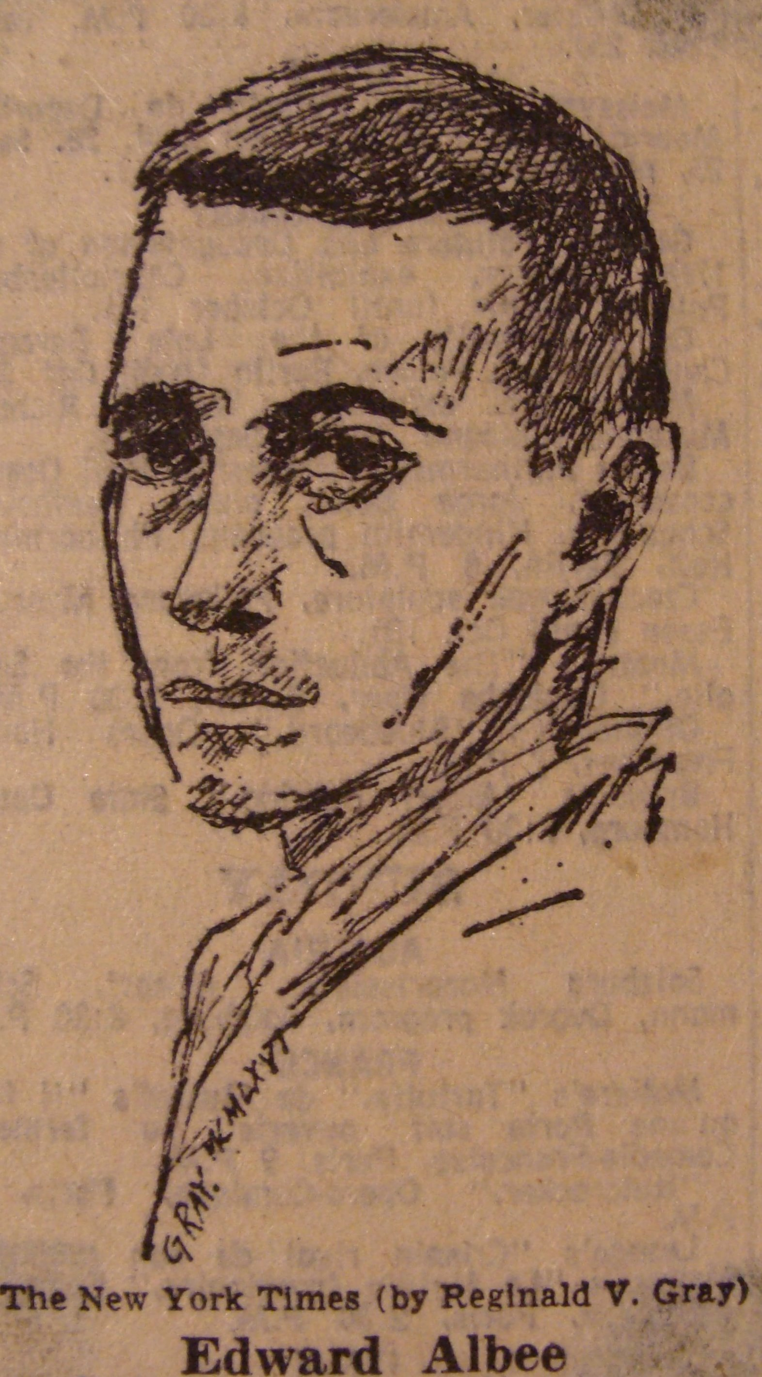 Drawing for The New York Times